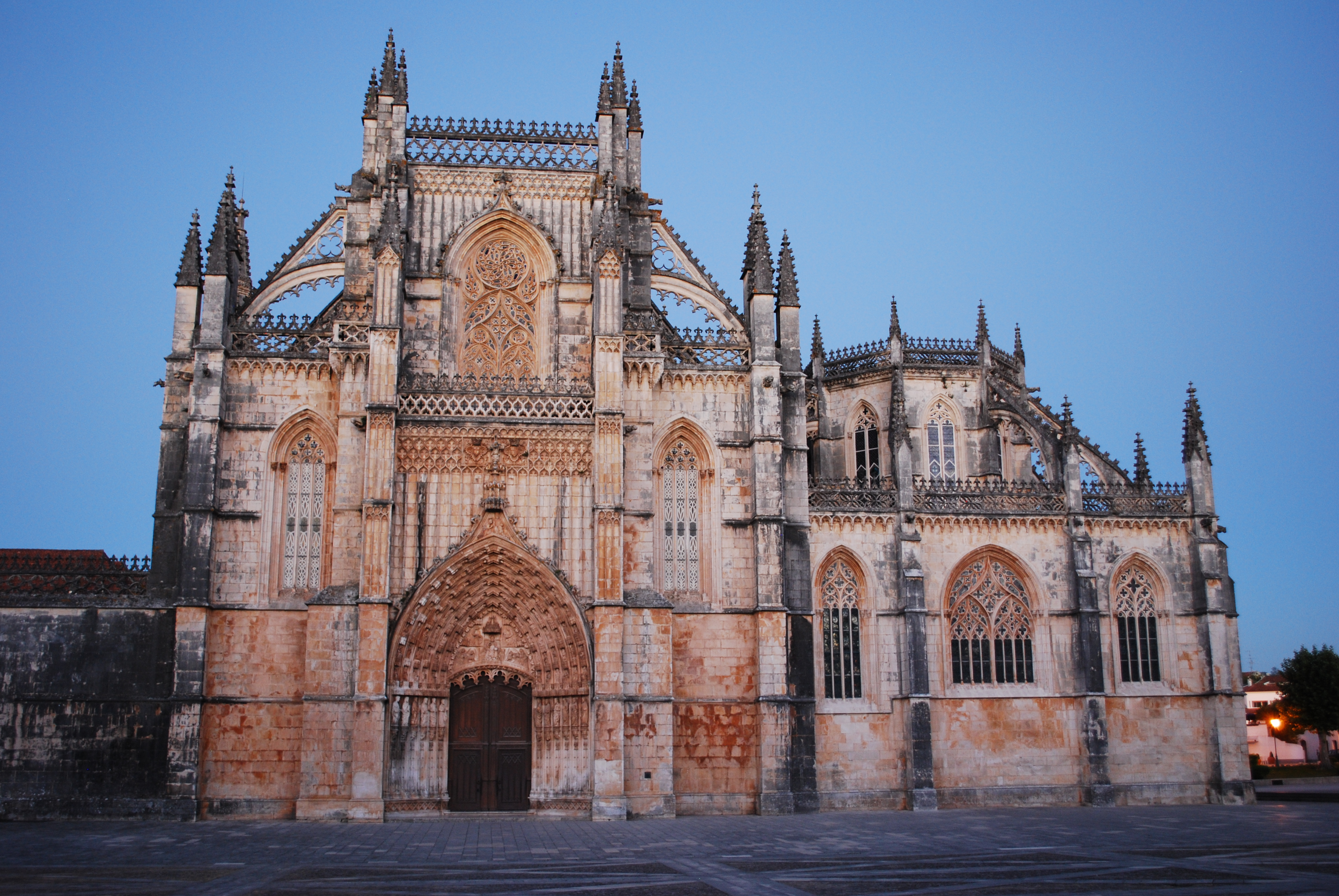 This file was uploaded for Wiki Loves Monuments in Portugal with the unique identifier 70099.